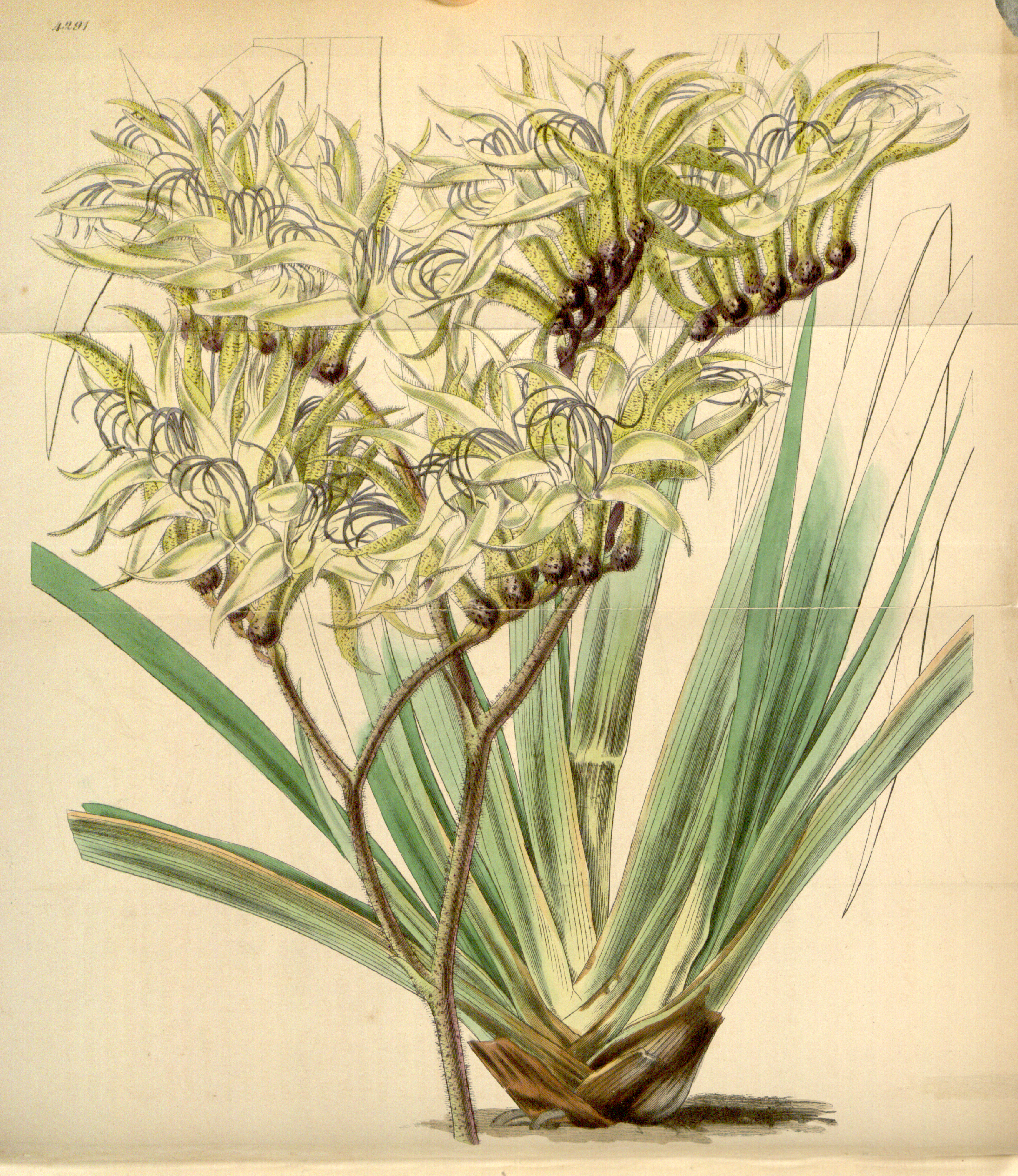 This is a plate from Curtis's Botanical Magazine, Volume 73.